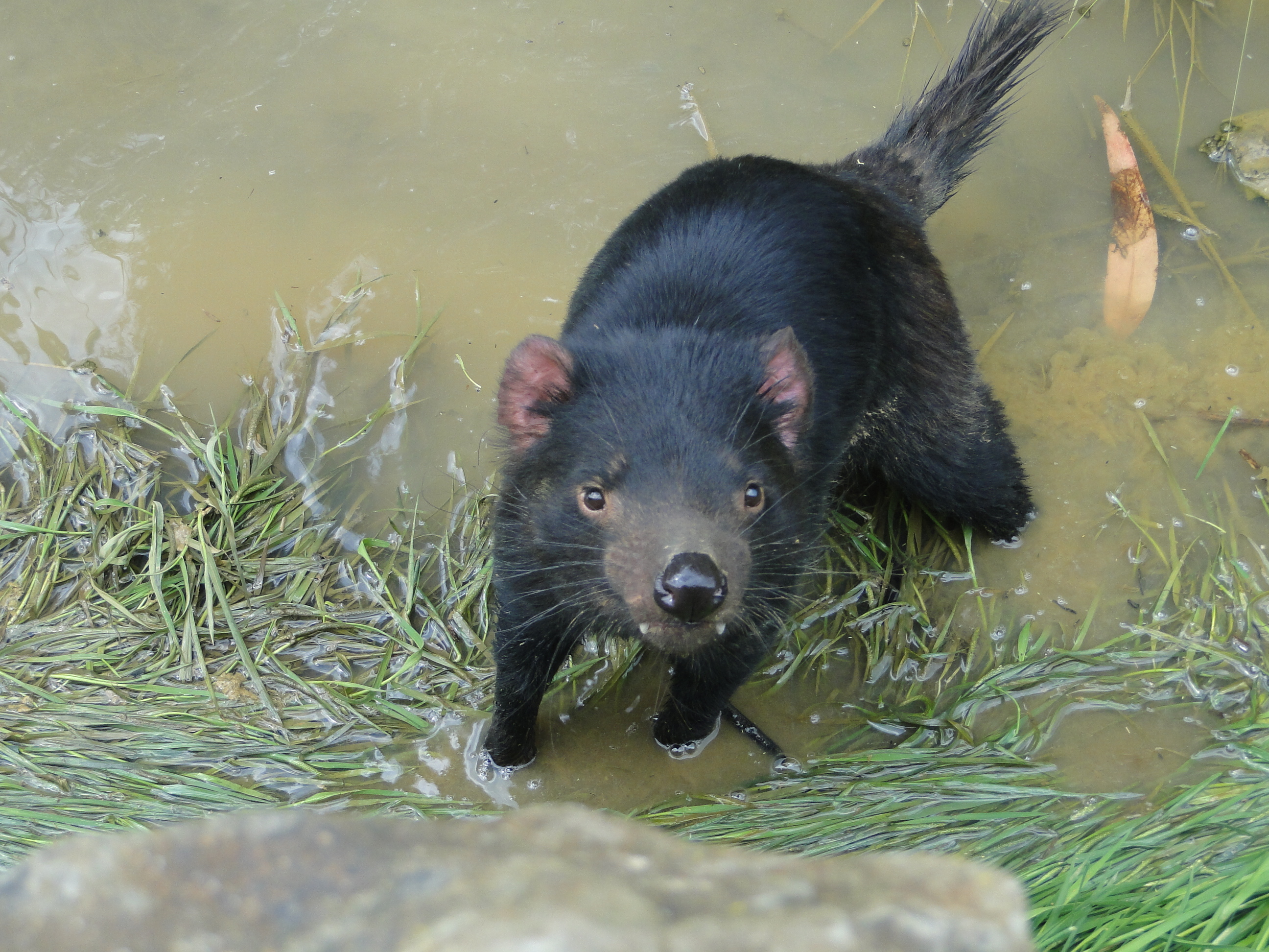 Baby Tasmanian Devil playing in water at Mole Creek, Tasmania, Australia